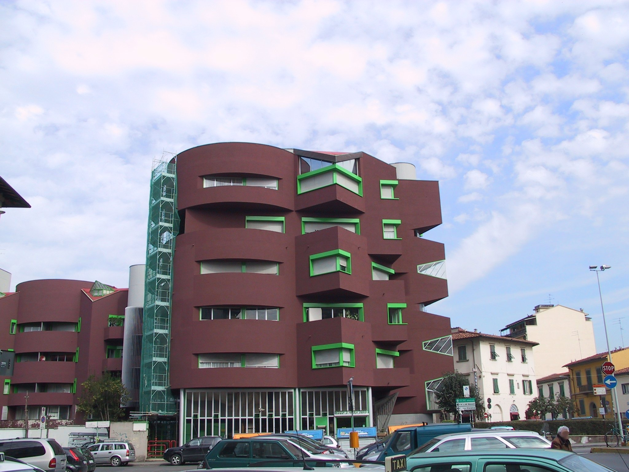 S.Jacopino square in Florence